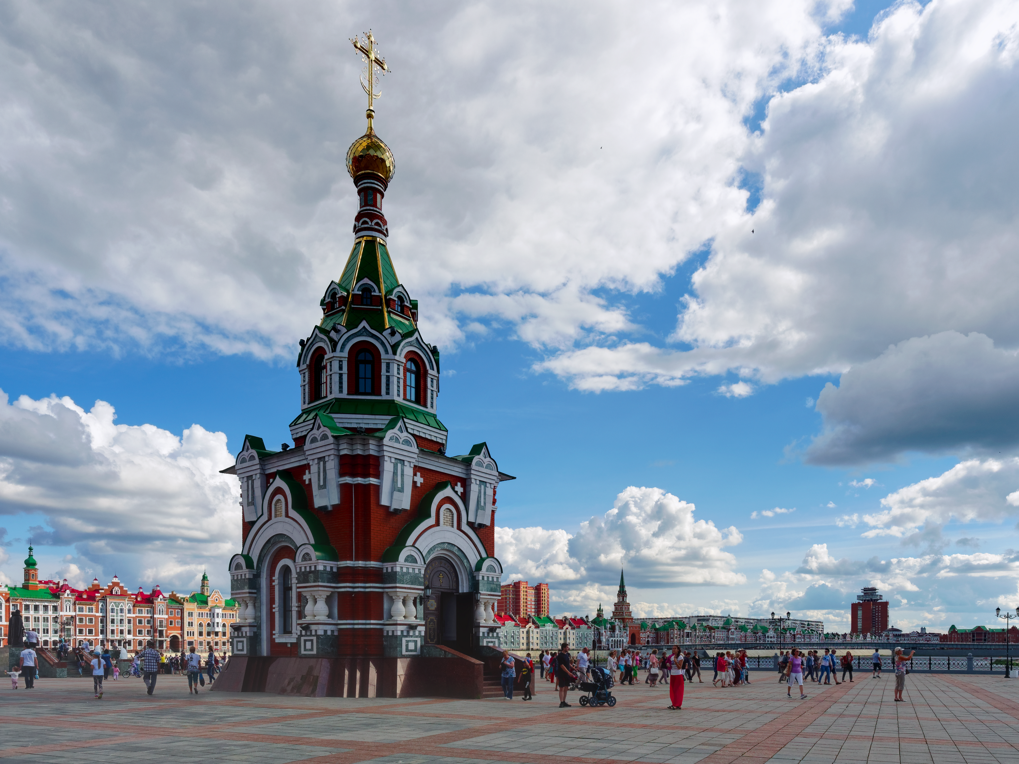 Yoshkar-Ola